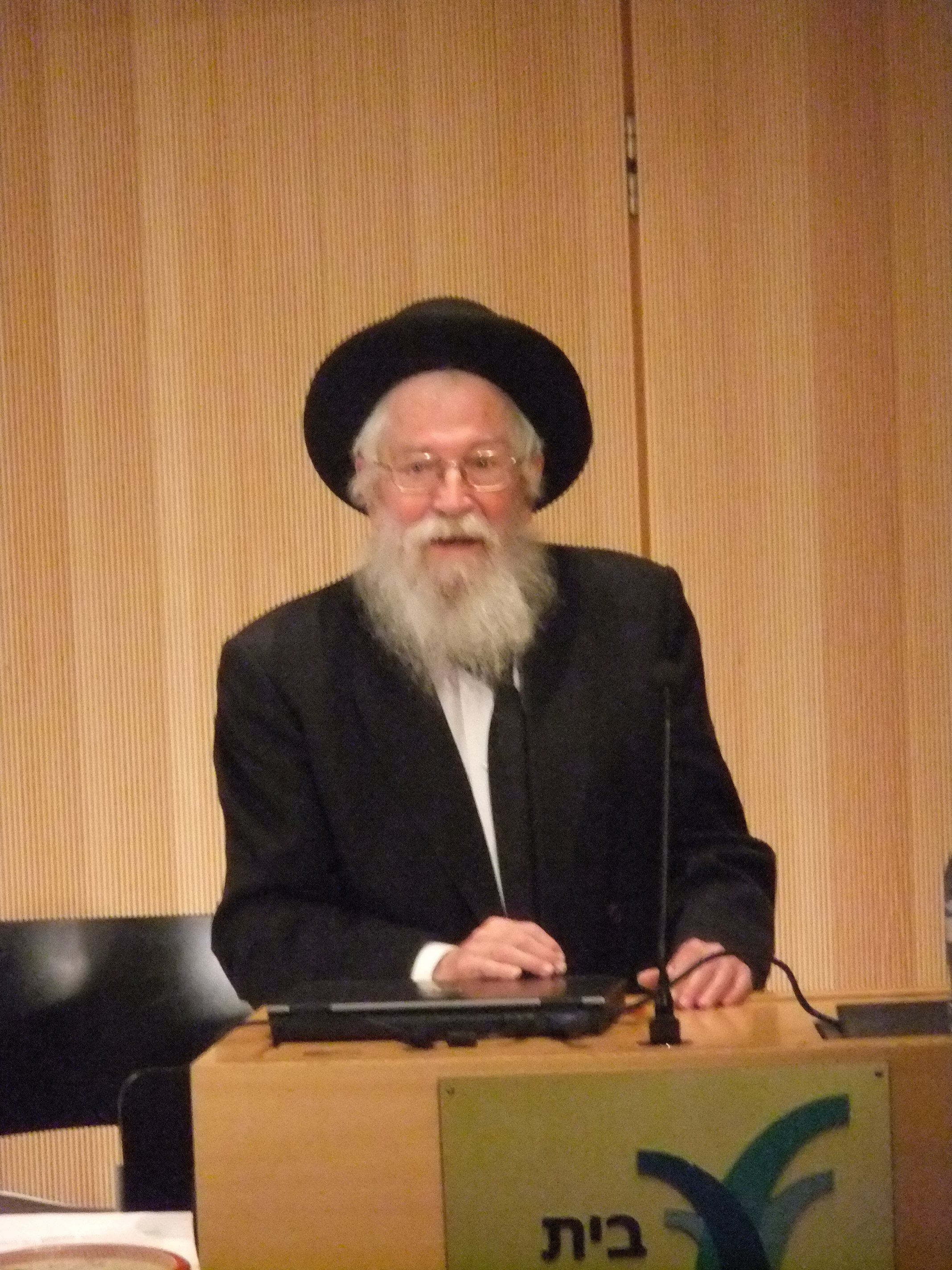 Rabbi Zalman Nechemia Goldberg